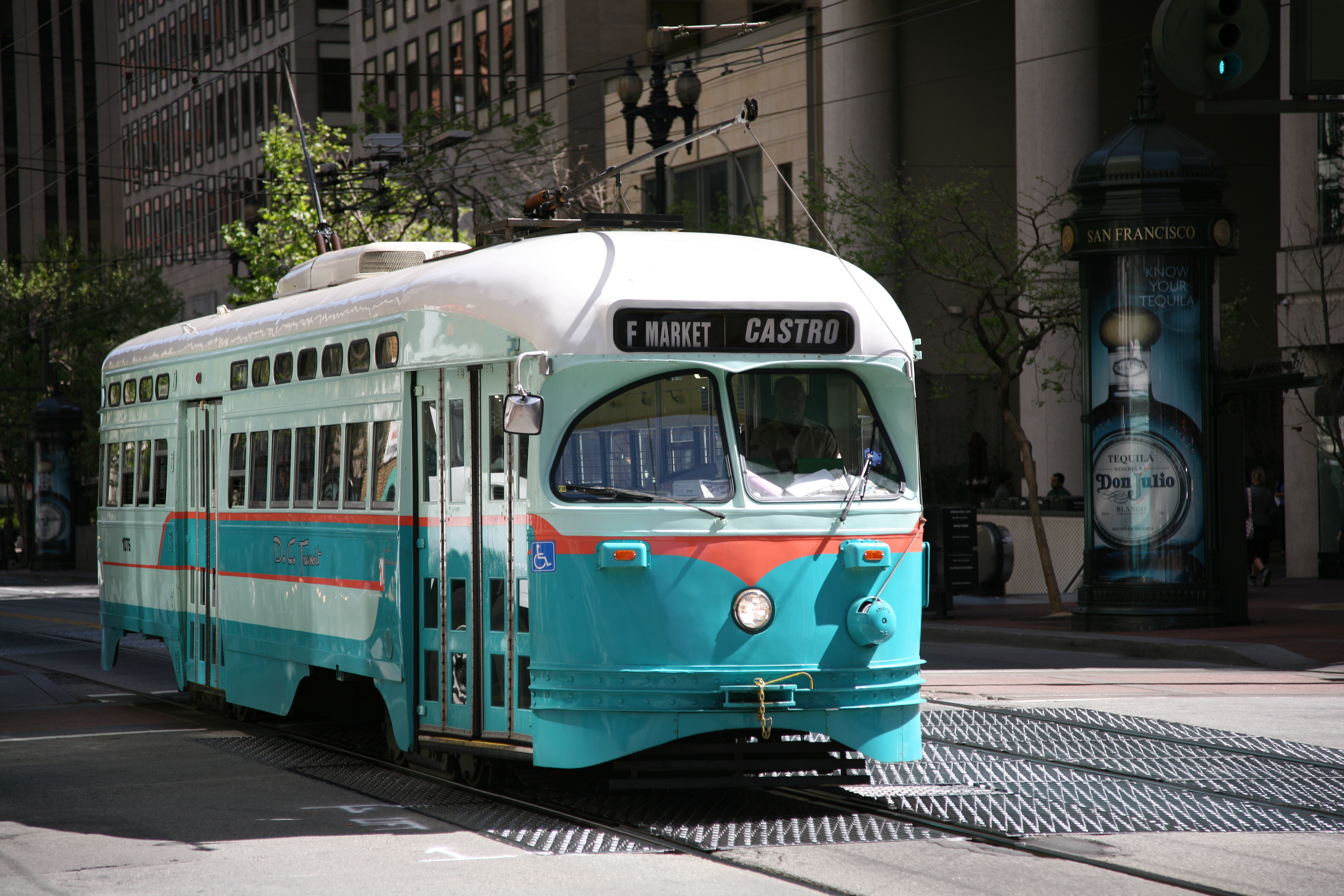 Street car on Market Street in San Francisco